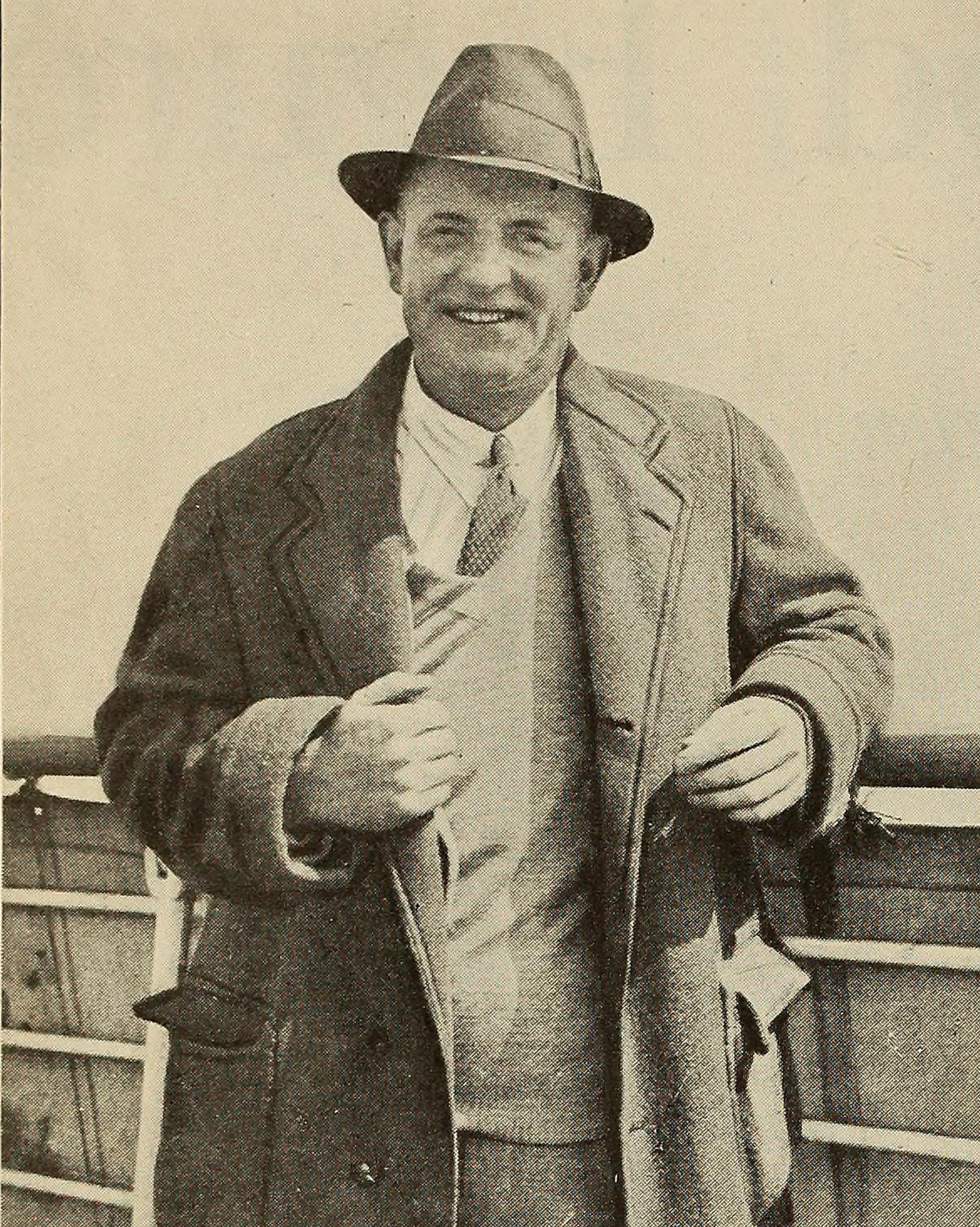 Image of the writer PG Wodehouse from 1930